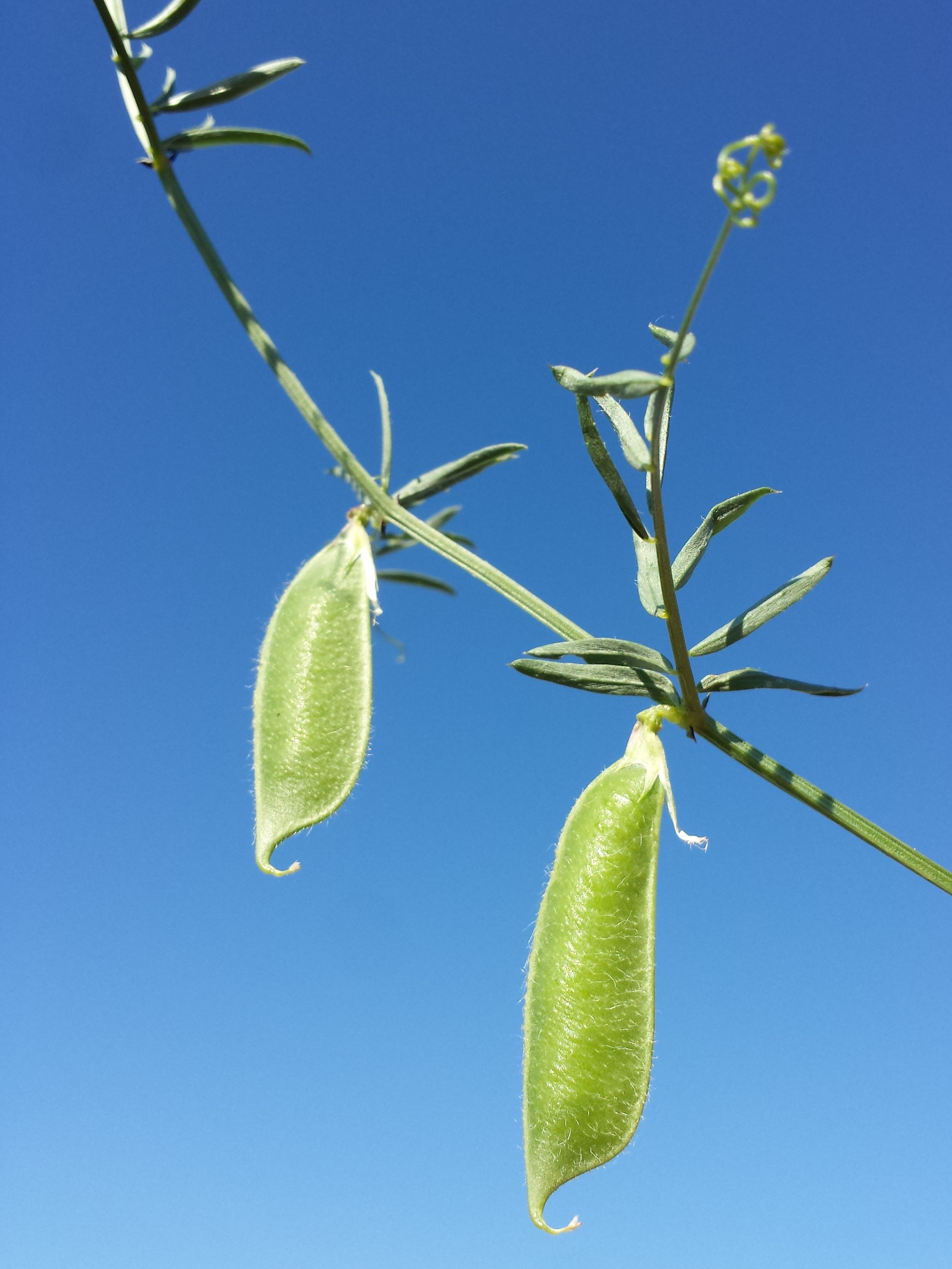 Infructescence Taxonym: Vicia lutea ss Fischer et al. EfÖLS 2008 ISBN 978-3-85474-187-9 Location: Korneuburg rail station, district Korneuburg, Lower Austria - ca. 170 m a.s.l. Habitat: ruderal meadows